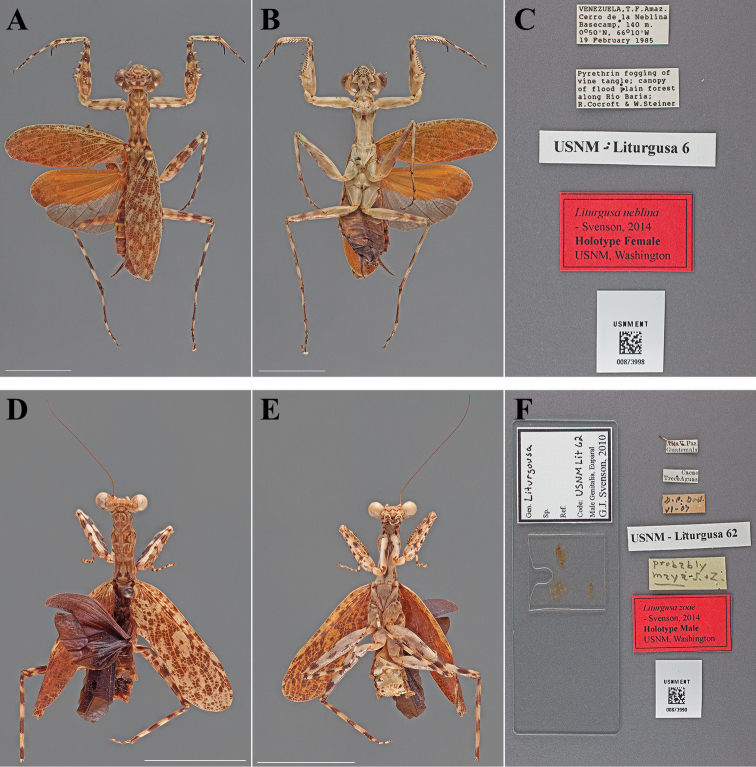 Types (scale bars = 1 cm). Liturgusa neblina Svenson, 2014 holotype female (USNM ENT 00873998): A dorsal habitus B ventral habitus C labels. Liturgusa zoae Svenson, 2014 holotype male (USNM ENT 00873990): D dorsal habitus E ventral habitus F labels.